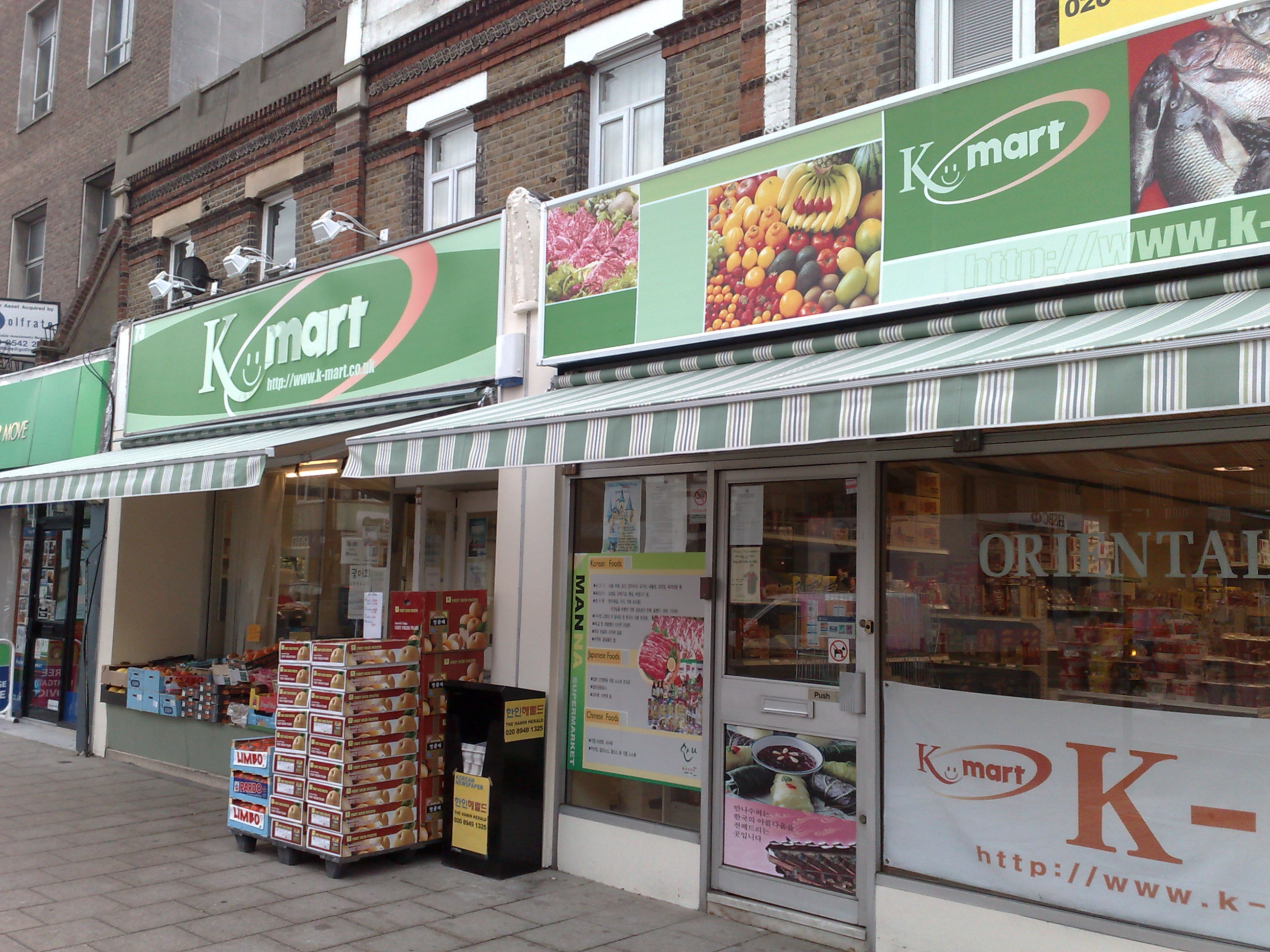 A Korean Supermarket in London, UK. K-mart, 71-73 High Street, New Malden, London KT3.